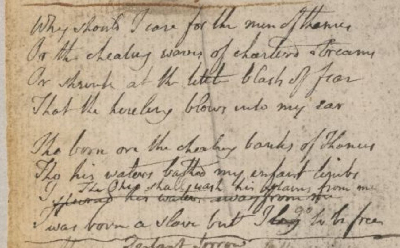 Blake manuscript - Notebook 12 - Why should I care for the men of thames